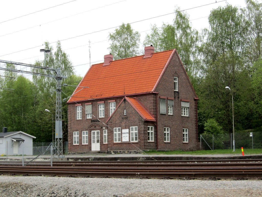 Borgestad station on the Vestfold line (Skien municipality, Norway)